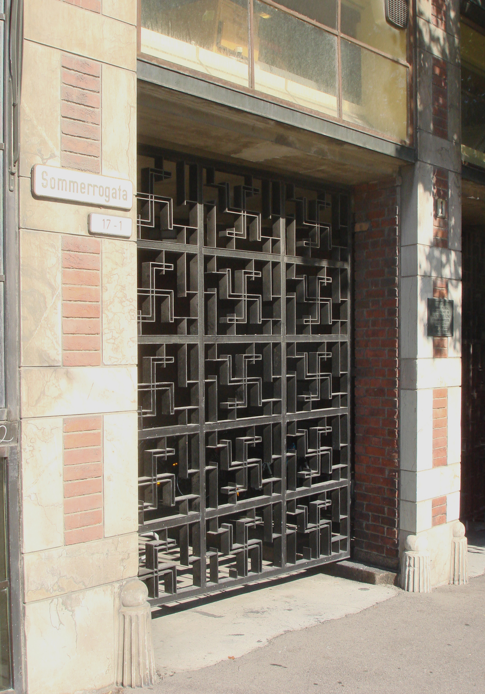 Wrought iron gate to headquarters of Oslo Lysverker (Municipal Power Plant). Architects Bjercke and Eliassen, 1932.